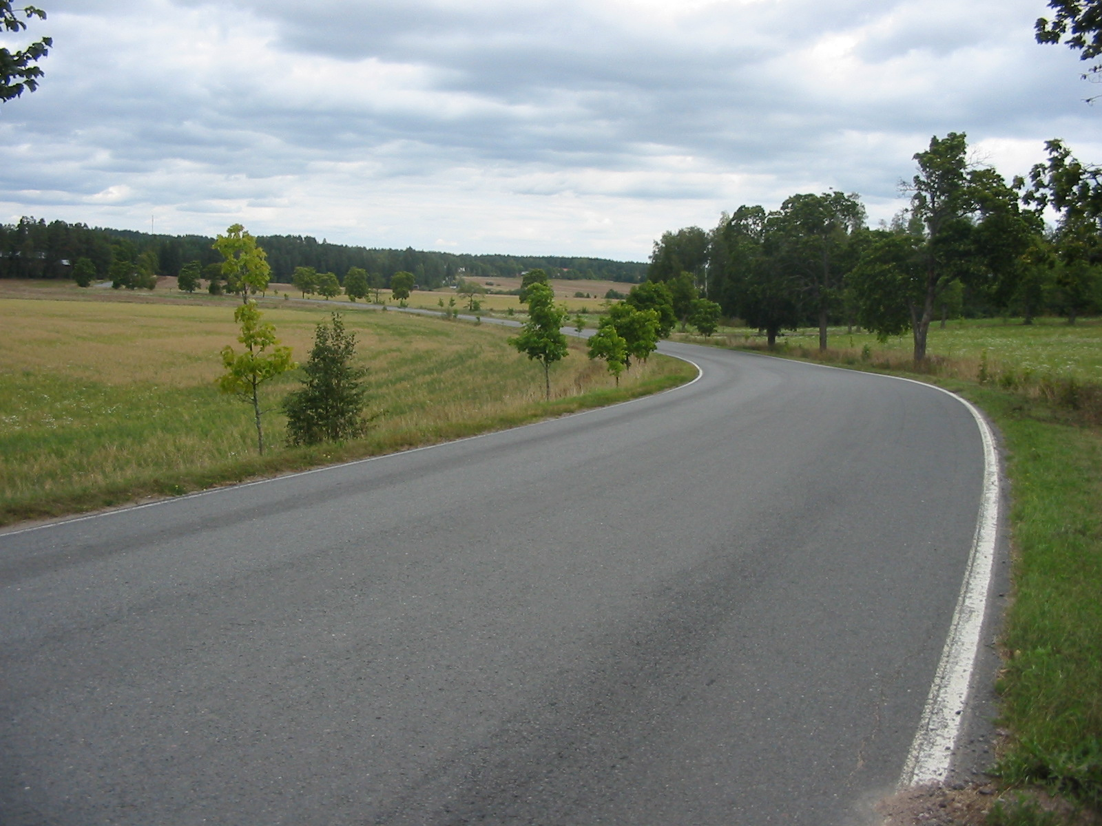 Connecting road 2810, part of the Häme Oxen Road, in Pitkäjärvi, Somero, Finland